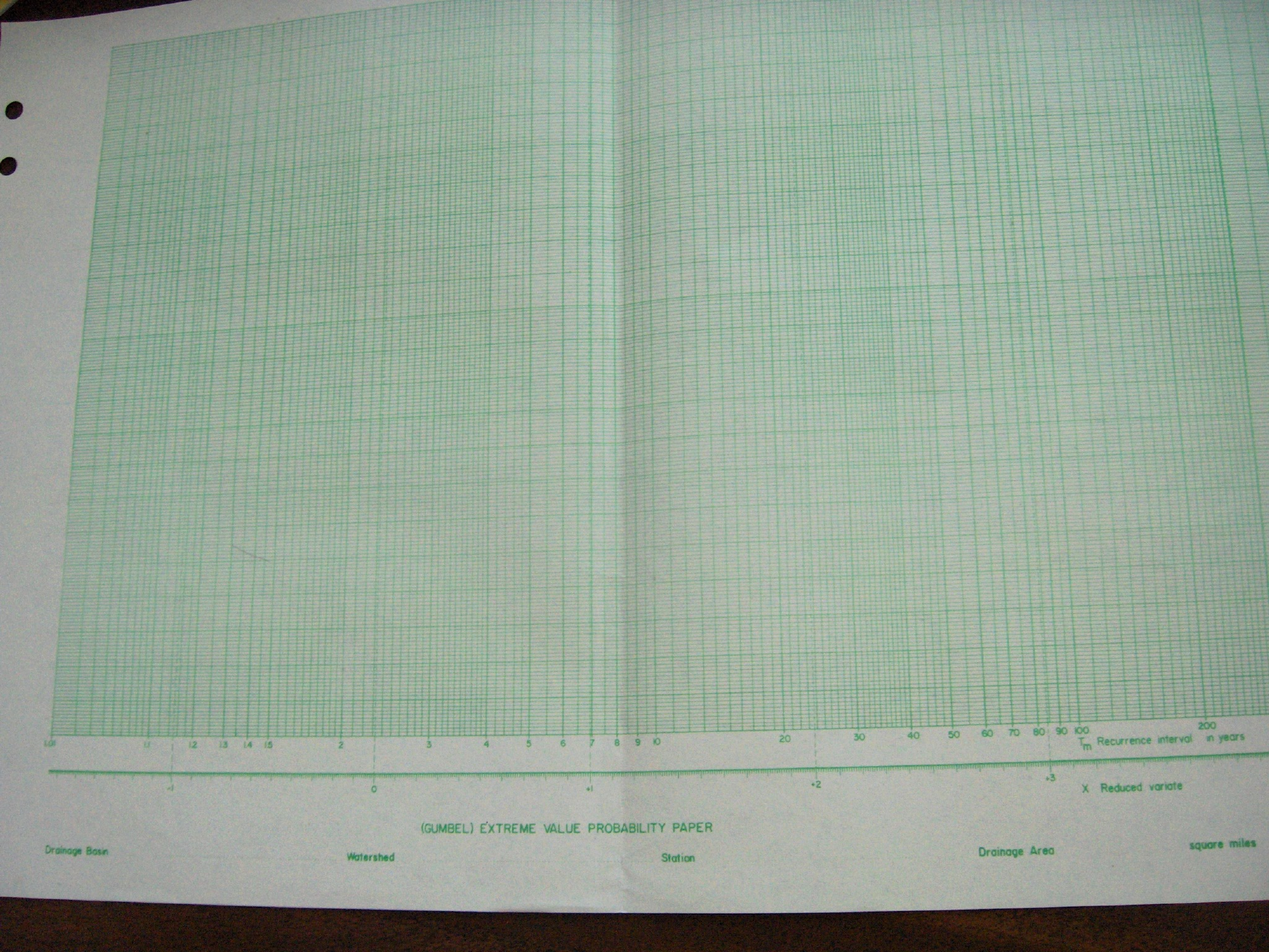 A piece of Gumbel paper (extreme value probability)